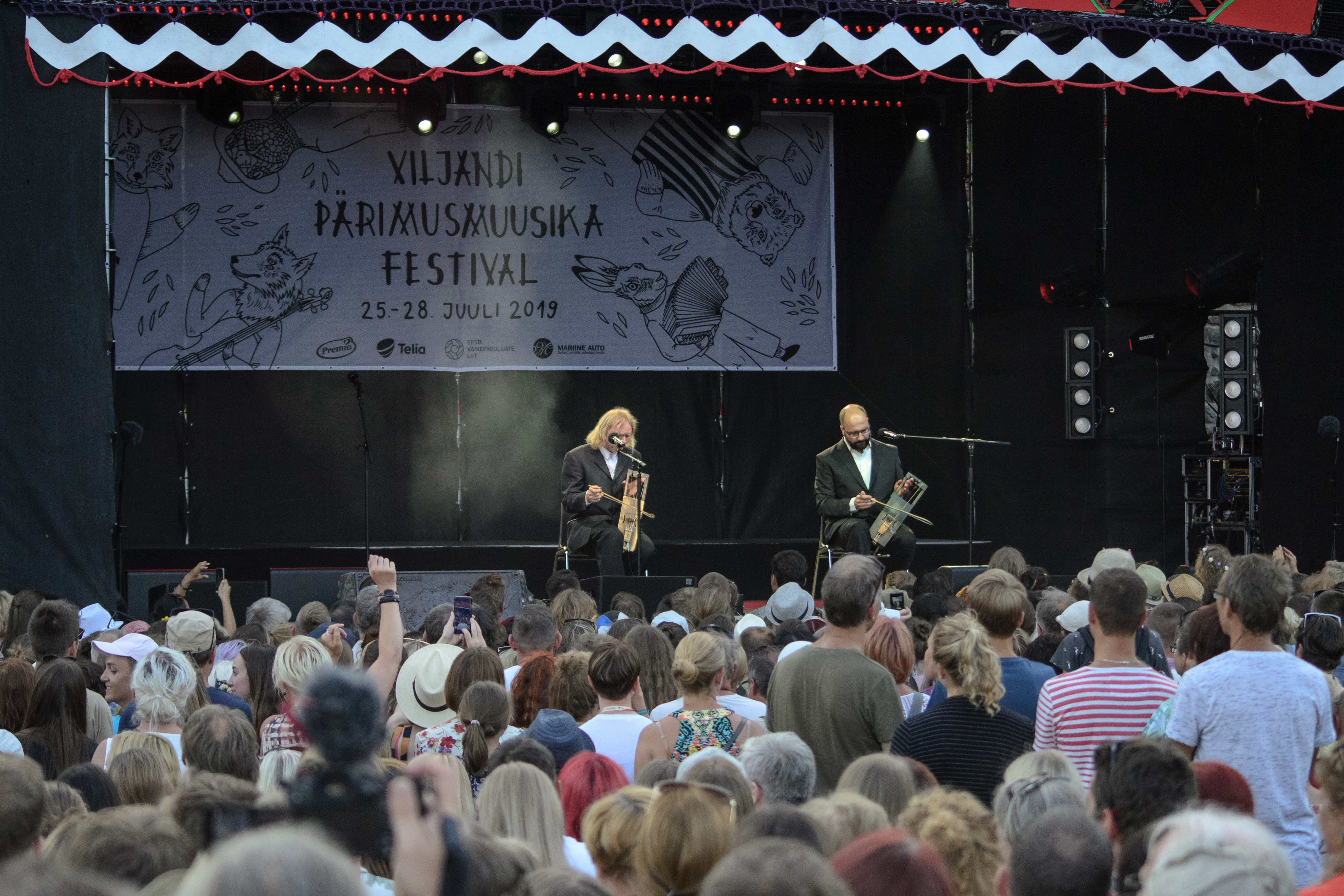 Puuluup performing at Viljandi Folk 2019